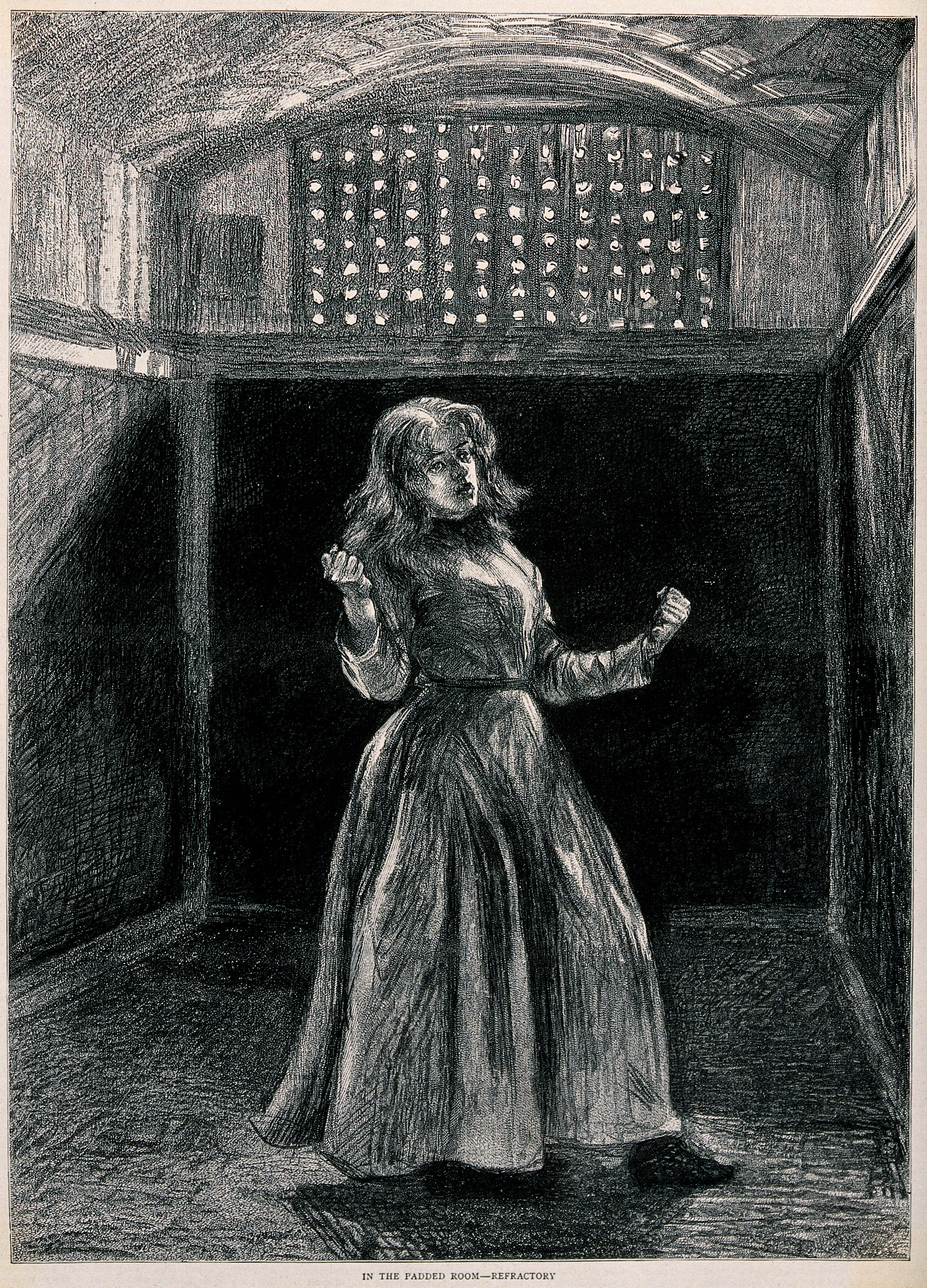 The punishment room at Woking Convict Invalid Prison. The woman stands alone in a padded cell with her arms outstretched and her fists clenched. Iconographic Collections